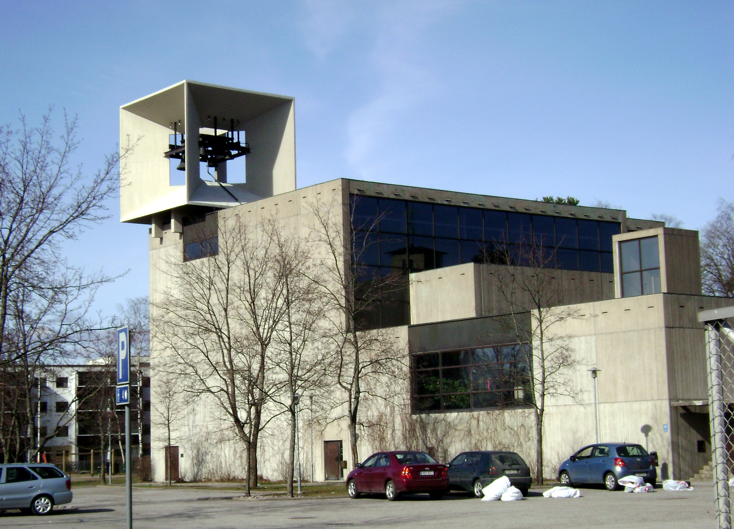 Järvenpää Church in Järvenpää, Finland, was designed by Erkki Elomaa, and built in 1967–1968.